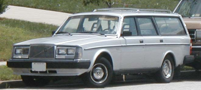 Volvo 200-Series wagon photographed in USA.